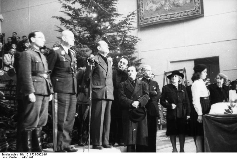 Information added by Wikimedia users.* Natale in Italia per la "Panzer division Herman Goering", nel 1943.